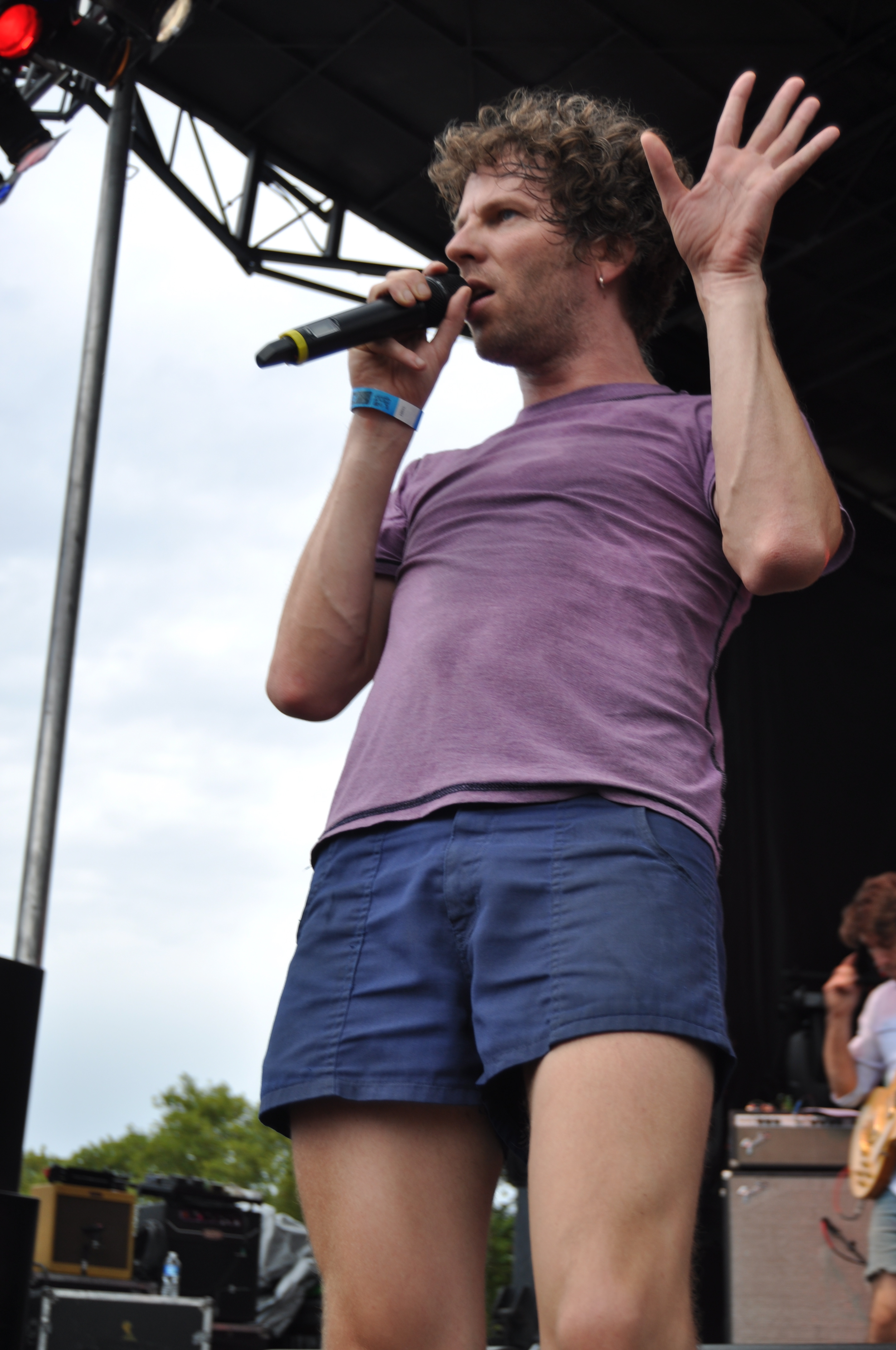 Flickr Tags: Loufest St. Louis Forest Park concert Chk Chk Chk Nic Offer Singer Hand Wave purple short shorts fro stage August 28 2011 8/28/11.